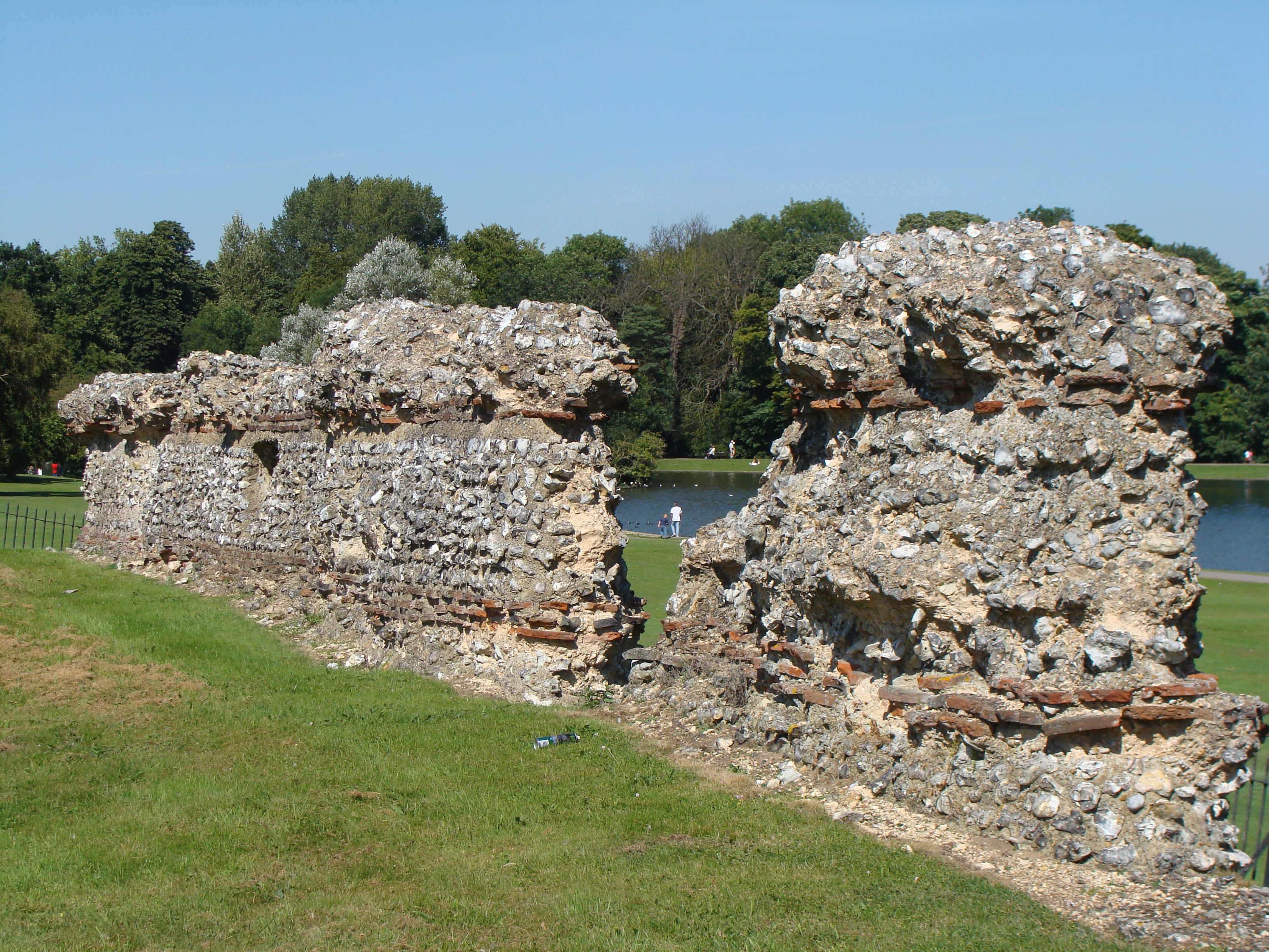 Remains of Roman wall in St Albans, Hertfordshire, UK